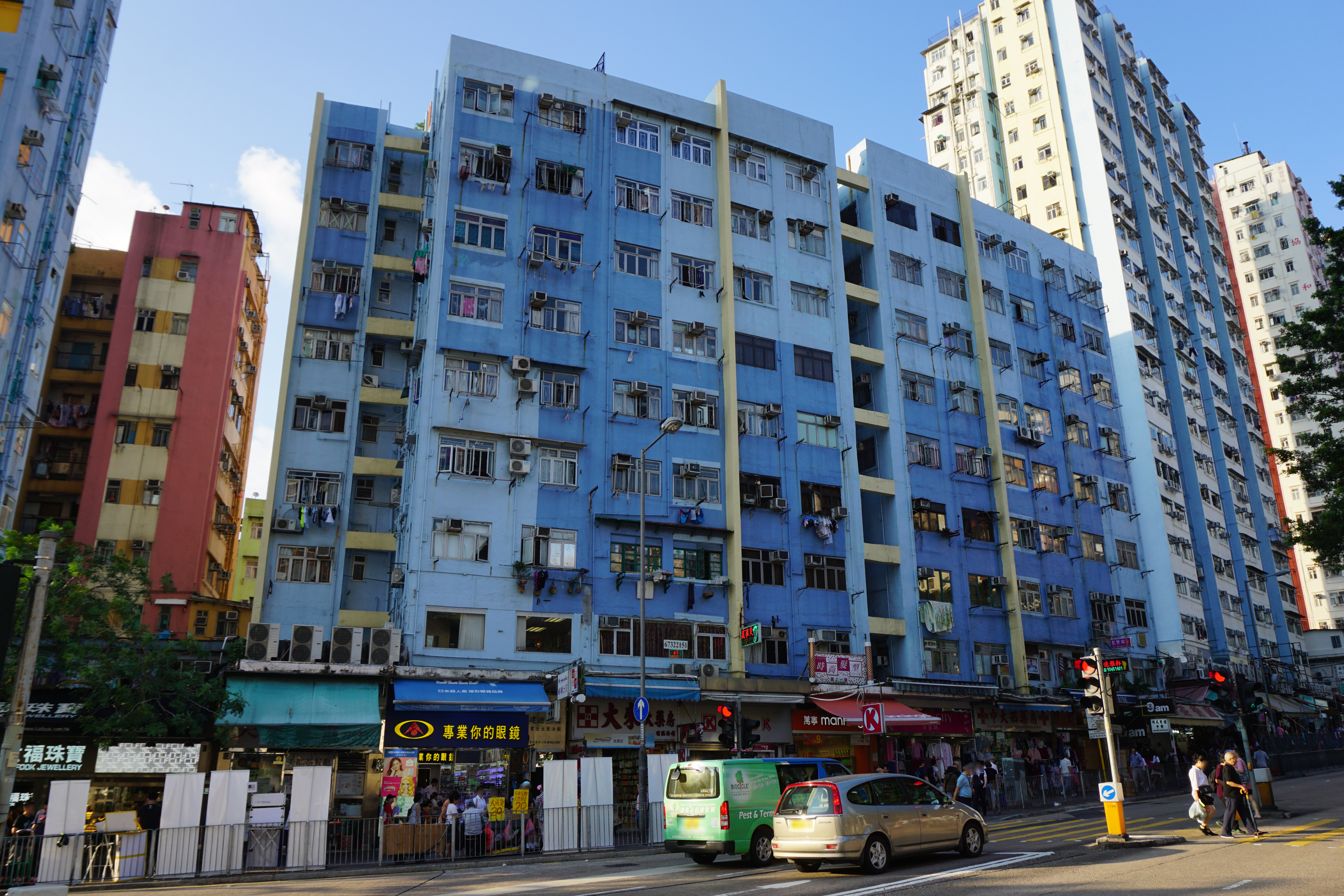 Kin Tak House in Kwun Tong, Hong Kong.